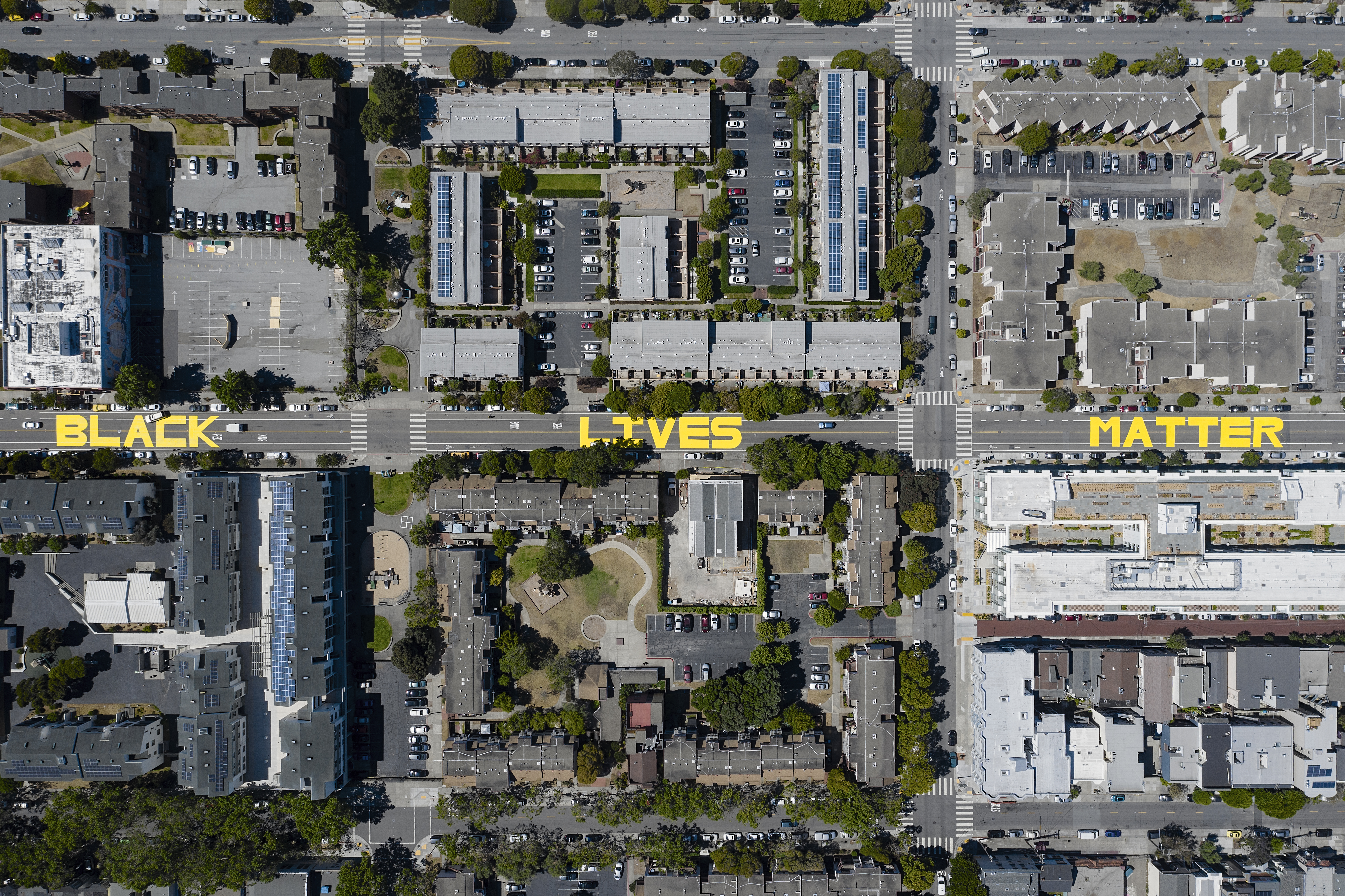 Black Lives Matter Mural San Francisco by Christopher Michel